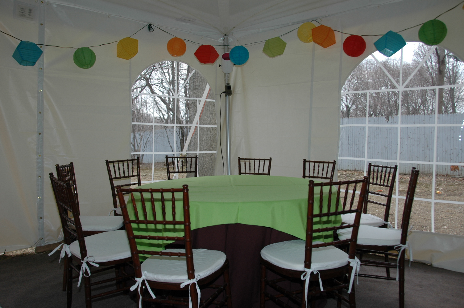 Chiavari (fruitwood) ballroom chairs rented for more formal events.